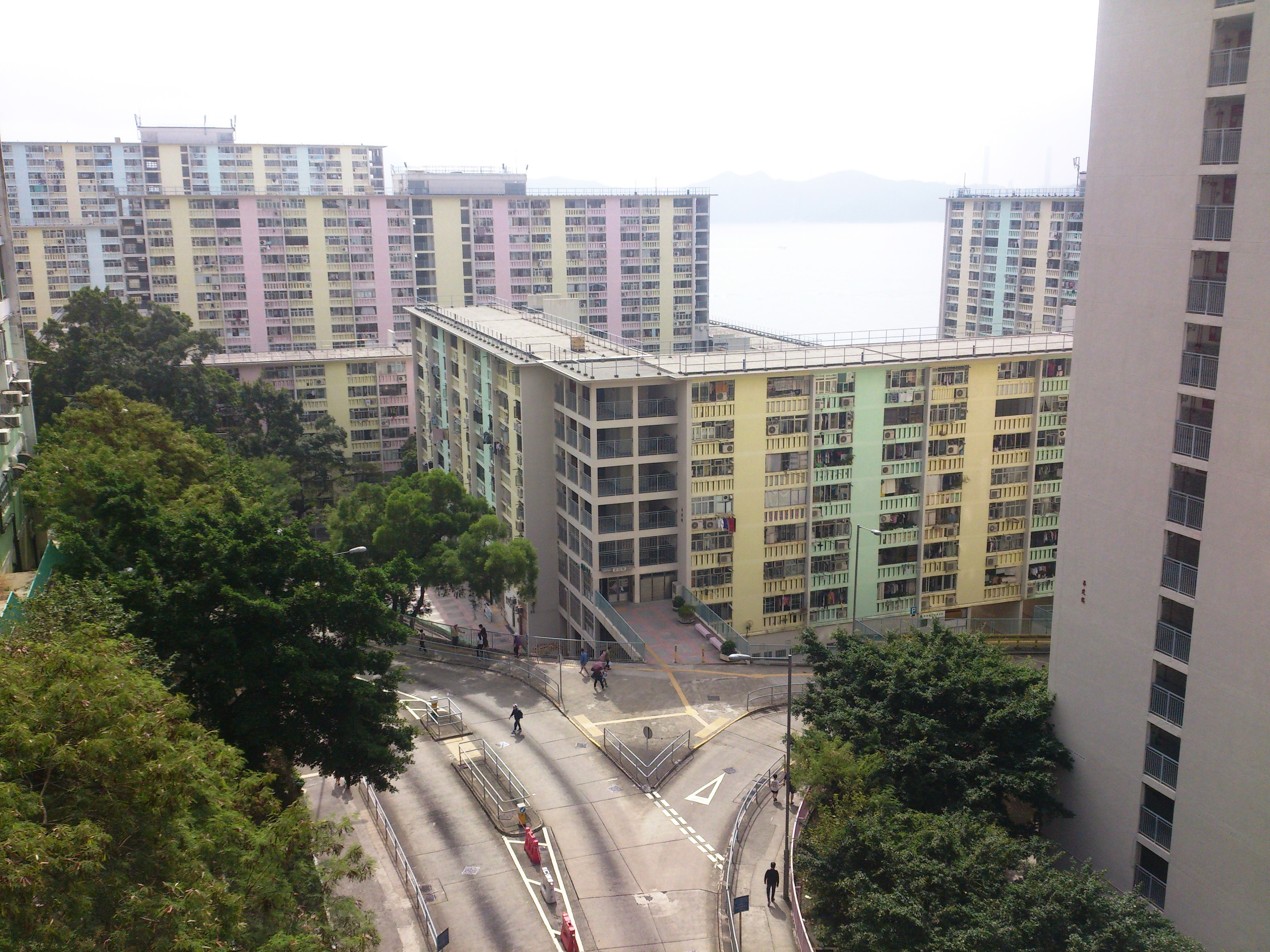 Wah Fu Road near Wah Ching House